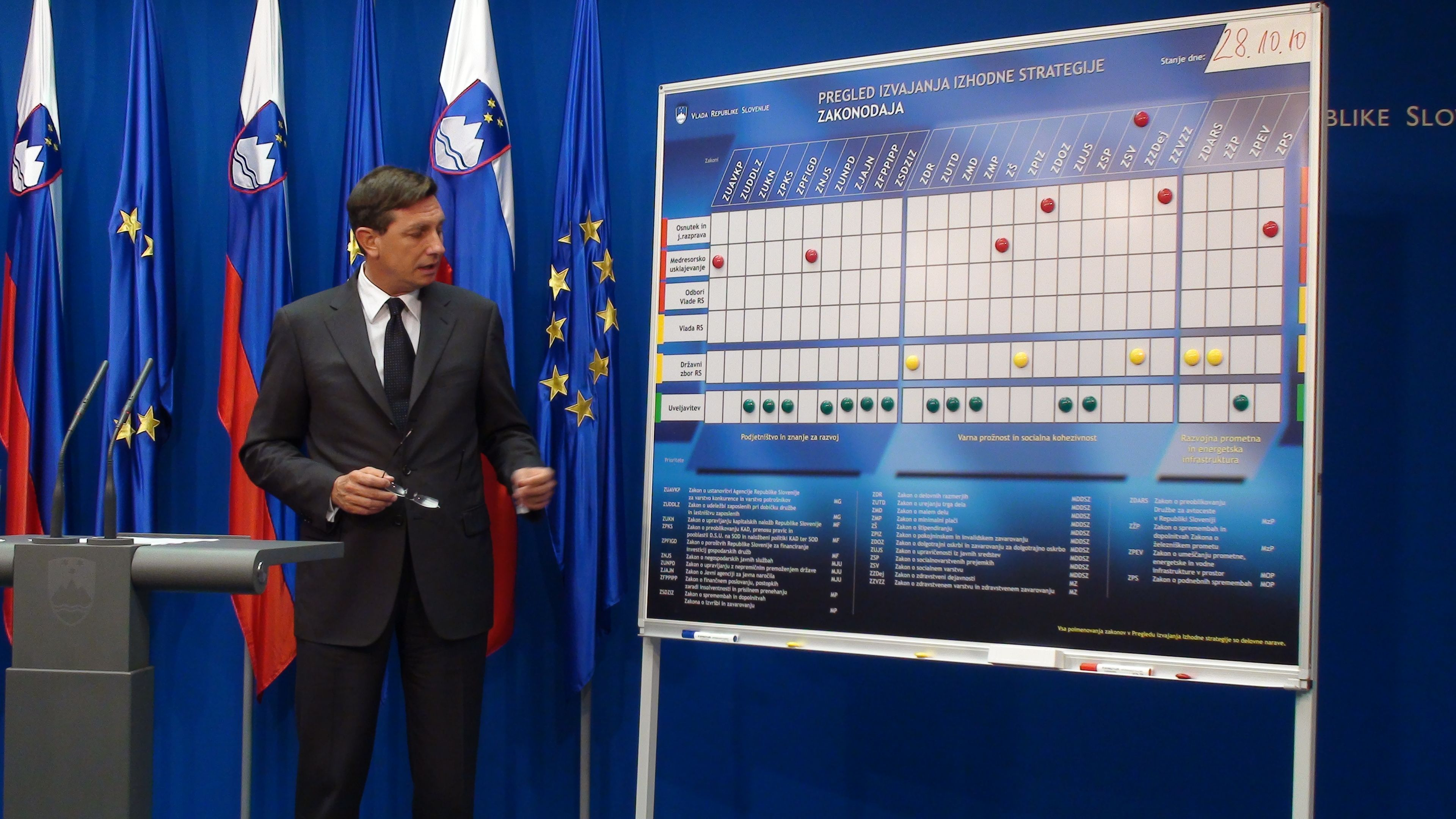 සිංහල: Borut Pahor in semafor